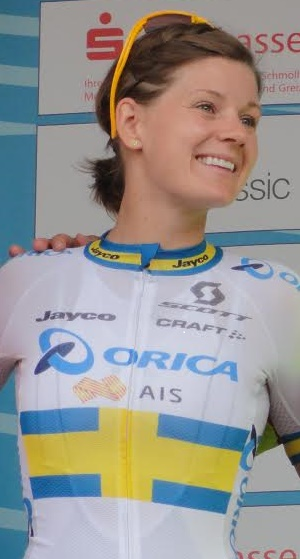 Emma Johansson on a podium of the Thuringen Rundfahrt 2015